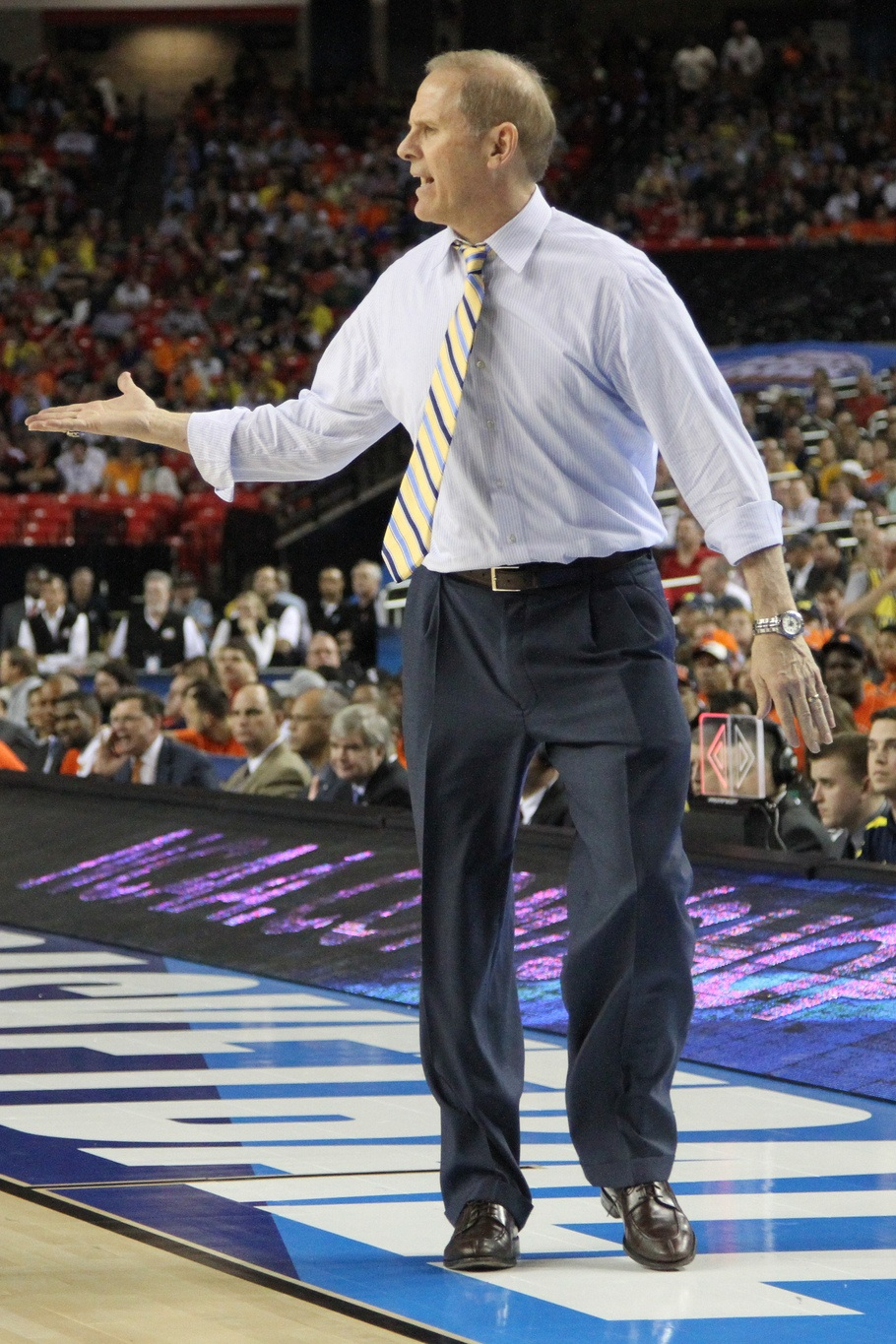 John Beilein at the 2013 final four